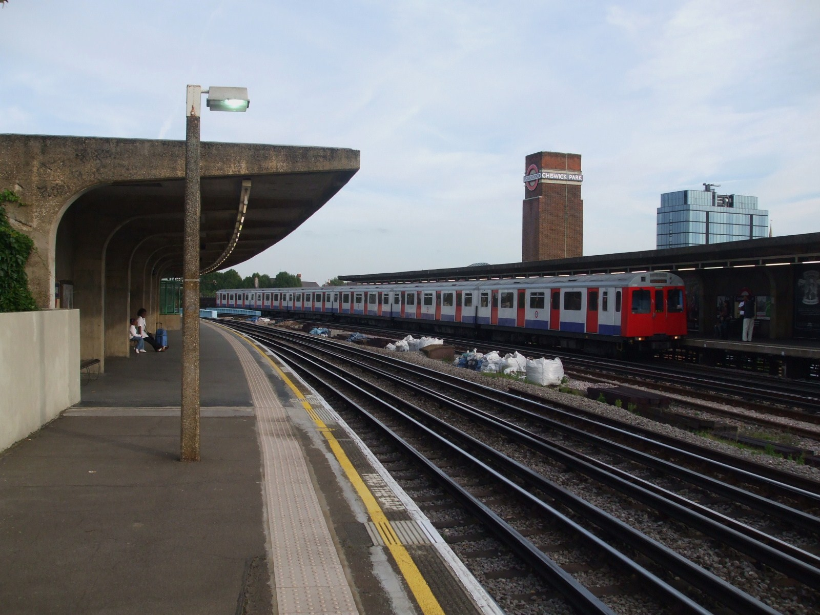 Chiswick Park tube station eastbound platform looking east, with a District line D Stock train calling with a westbound service. Note no platforms for the Piccadilly line.